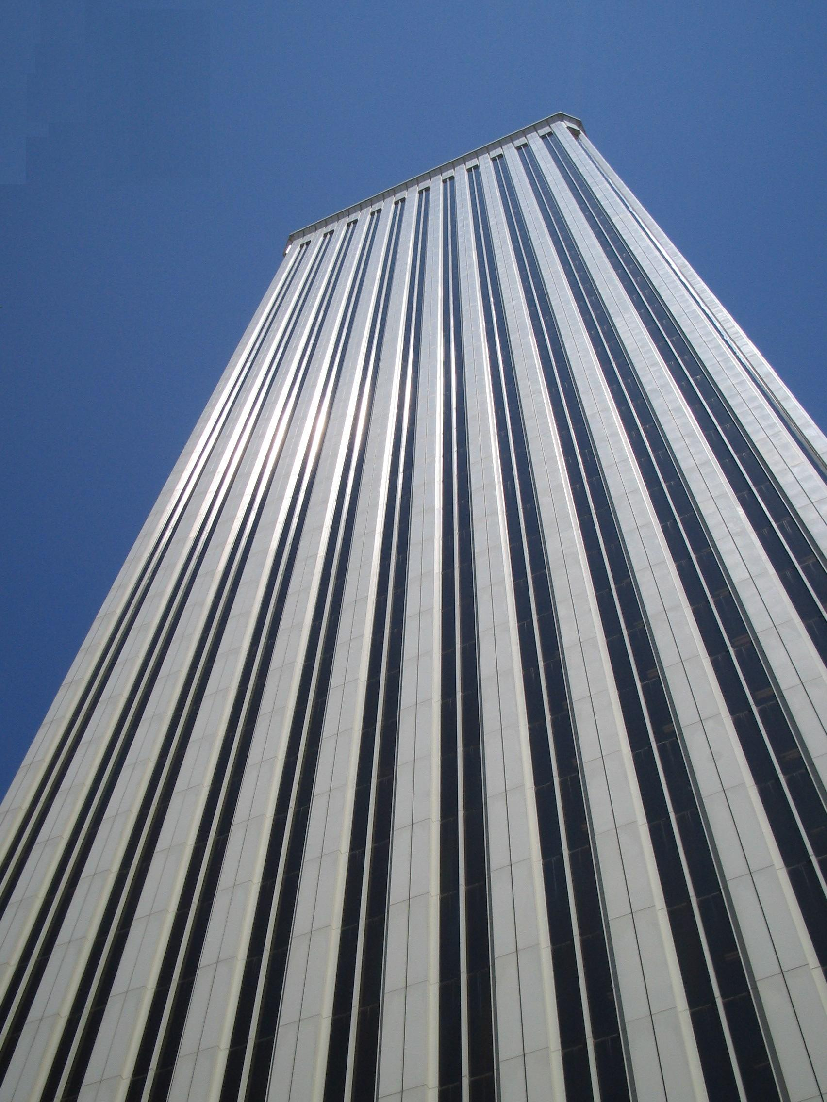 Torre Picasso in Madrid (Spain)